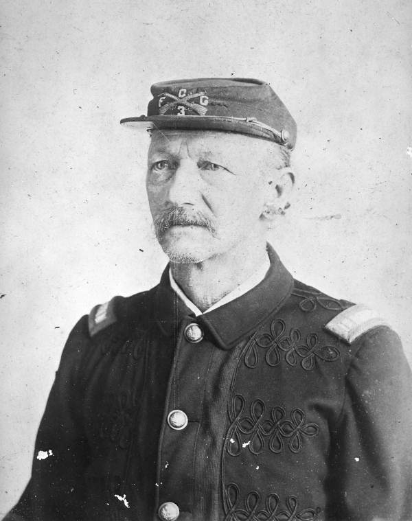 Local call number: PR01668 Title: Robert Knickmeyer Date: 188- Physical descrip: 1 photoprint; b&w; 10 x 8 in. Series Title: Print collection General note: Robert Knickmeyer was born in Hanover, Germany, on January 3, 1838, but by 1861 was living in Apalachicola, Florida. Knickmeyer enlisted at Apalachicola as a sergeant in Company B of the 4th Florida Infantry Regiment. In 1862 he became a first lieutenant. He fought in the Kentucky campaign, Vicksburg campaign, Chickamauga, Chattanooga, and through most of the Atlanta campaign. He was captured at the Battle of Jonesboro in August 1864. After the war he returned to Apalachicola to his wife Mary Louisa and their eight children. Pictured here in the uniform of the Franklin Guards; the "F" and "G" on his hat stand for this name and the "C" and "3" stand for Company C, Third Battalion of the Florida State Troops. The Franklin Guards were admitted as Company C, 3rd Bn in 1890. Repository: State Library and Archives of Florida, 500 S. Bronough St., Tallahassee, FL 32399-0250 USA. Contact: 850.245.6700. Persistent URL